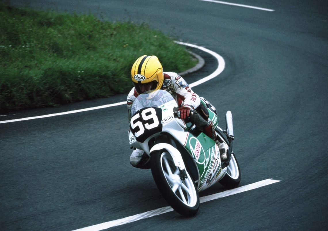 Joey Dunlop at Gooseneck on his 125ccm